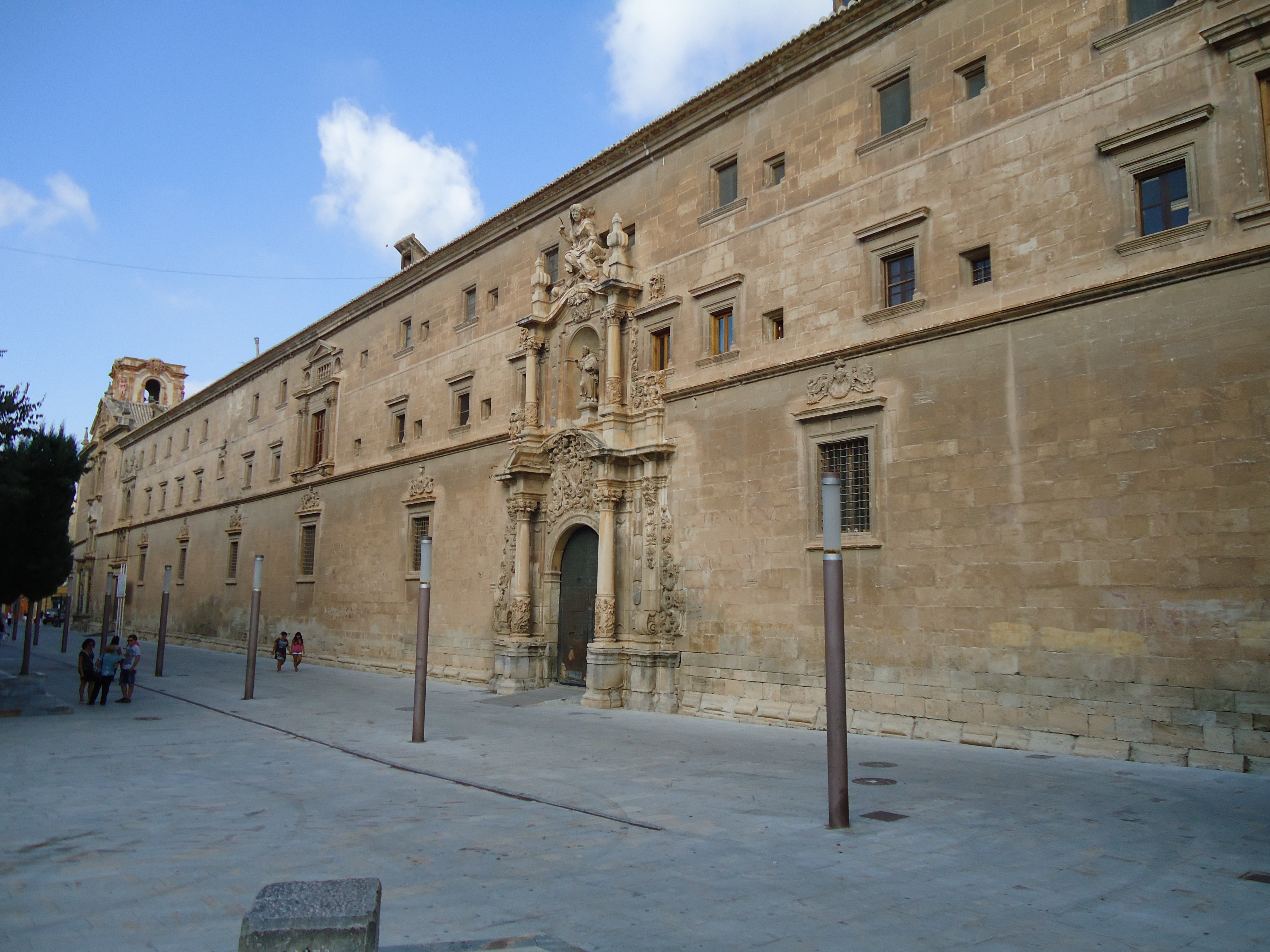 Façana principal de Santo Domingo, Oriola.